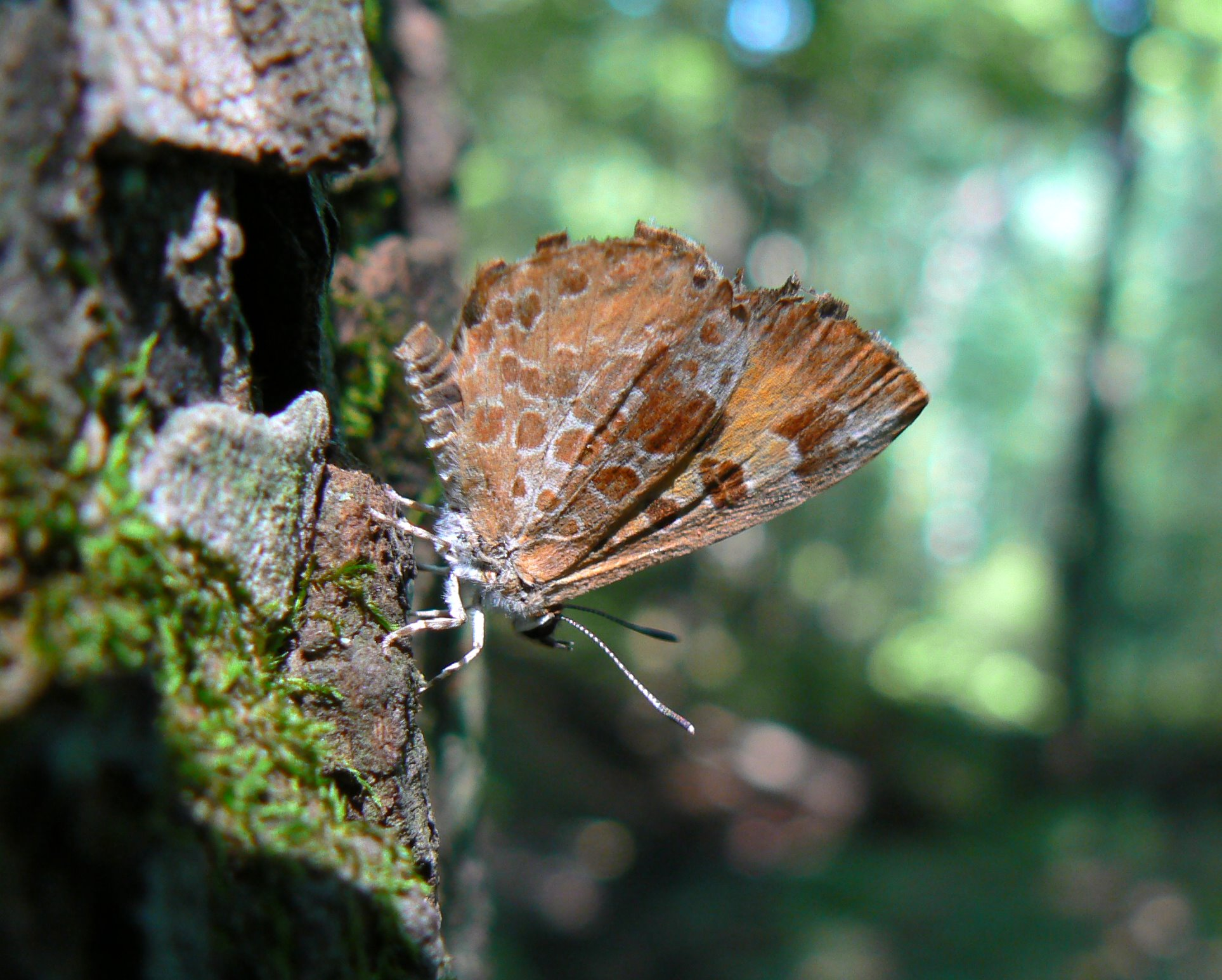 Looks like a slightly tattered Harvester (Feniseca tarquinius).